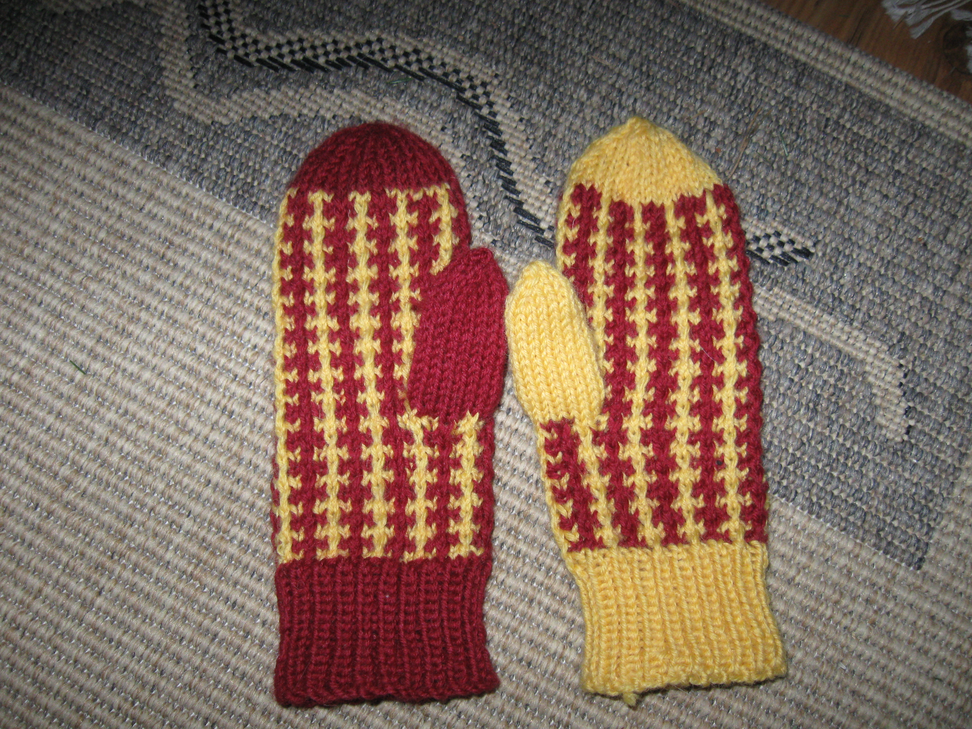 Finnish woolly mittens.